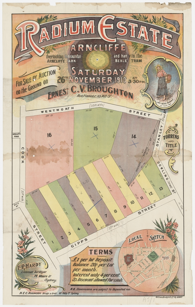 Radium Estate, Arncliffe 1910, State Library of New South Wales Z/M3 811.1851/1910/1